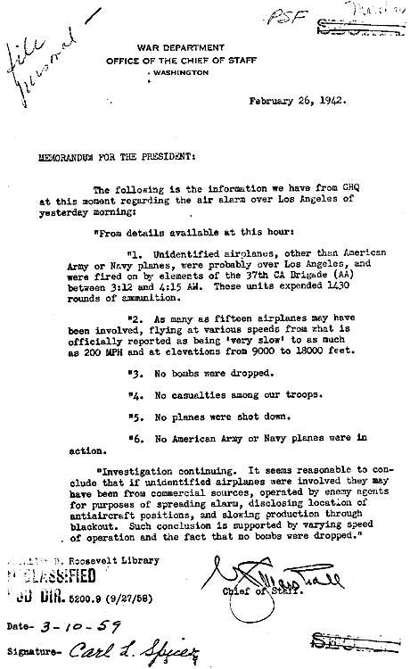 A memorandum off George C. Marshall, Chief of Staff of the United States Army, to president Roosevelt, regarding the "Battle of Los Angeles"